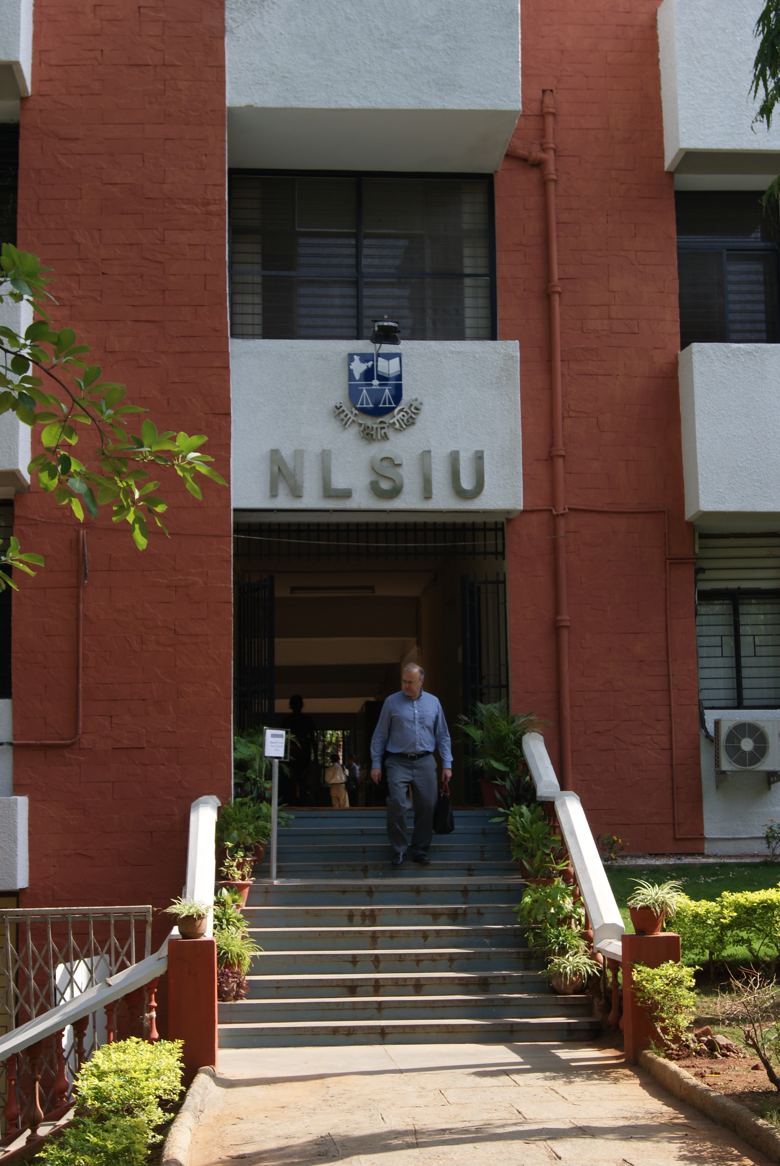 The National Law School of India University in Bangalore, Karnataka, India.